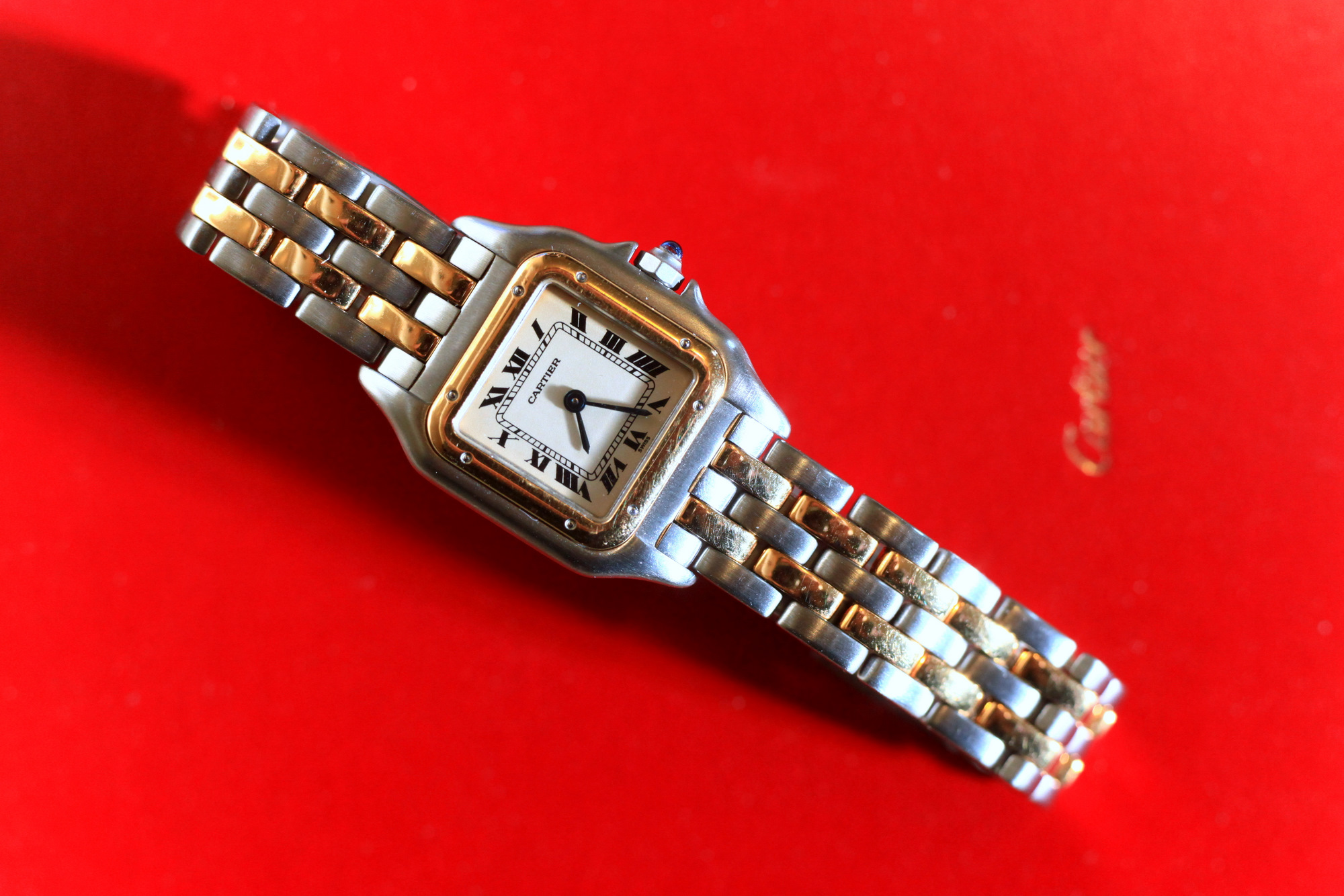 Cartier Panthere lady's two tone wrist watch